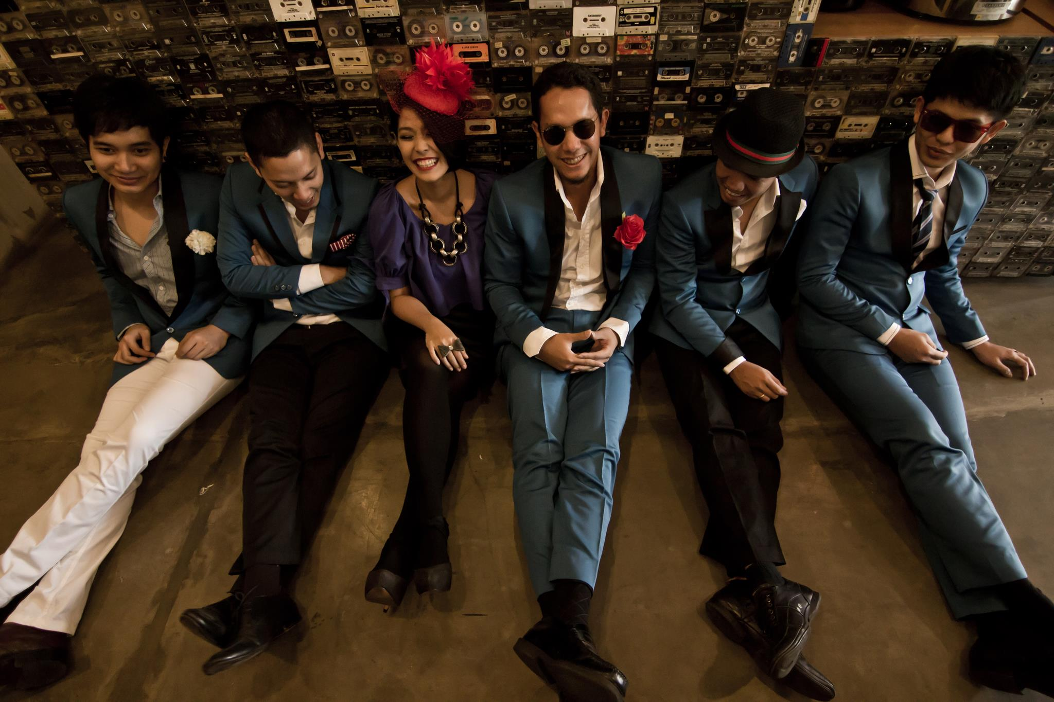 maliqmusic